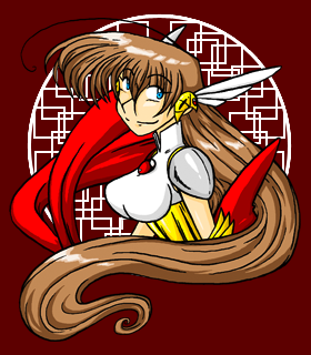 Yuuki, the main character from Sparkling Generation Valkyrie Yuuki